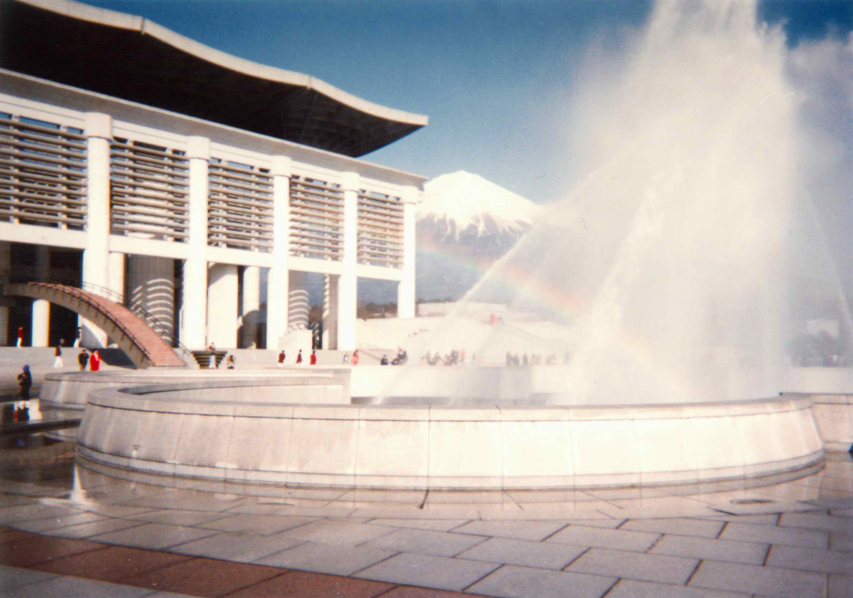 Syōhondō of Taiseki-ji in 1993.